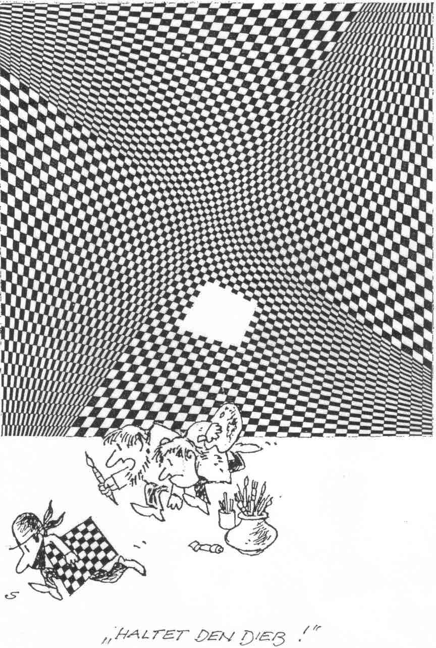 Cartoon by Heini Scheffler ("Chessboard thief")